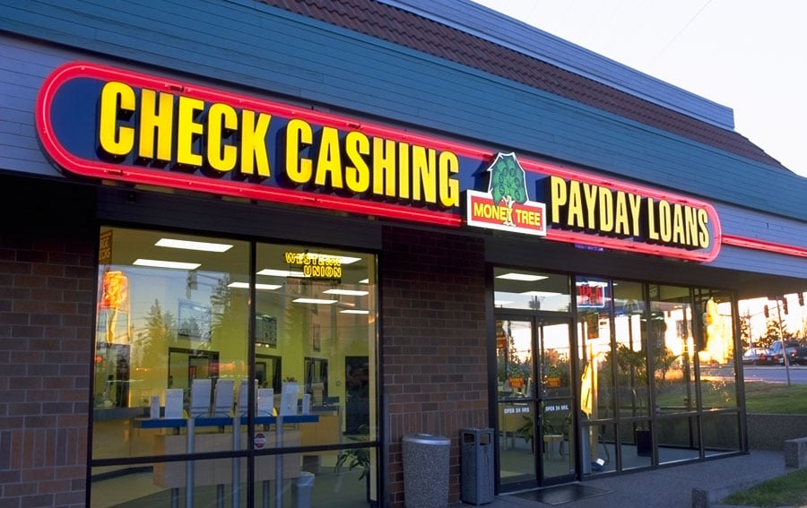 A Moneytree branch in Everett, Washington